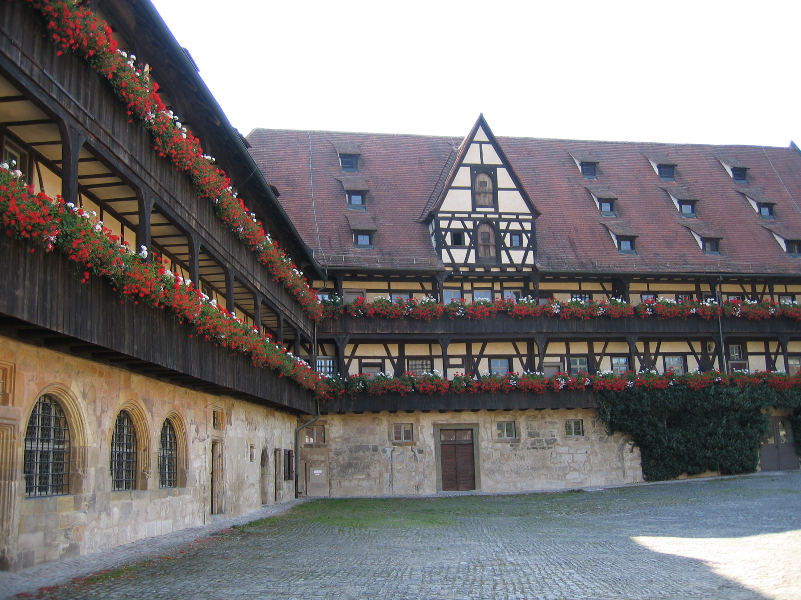 Description: "Alte Hofhaltung" (Teilansicht) in Bamberg (Germany) Source: selbst fotografiert Date: 4. Sept. 2005 Author: Asio otus